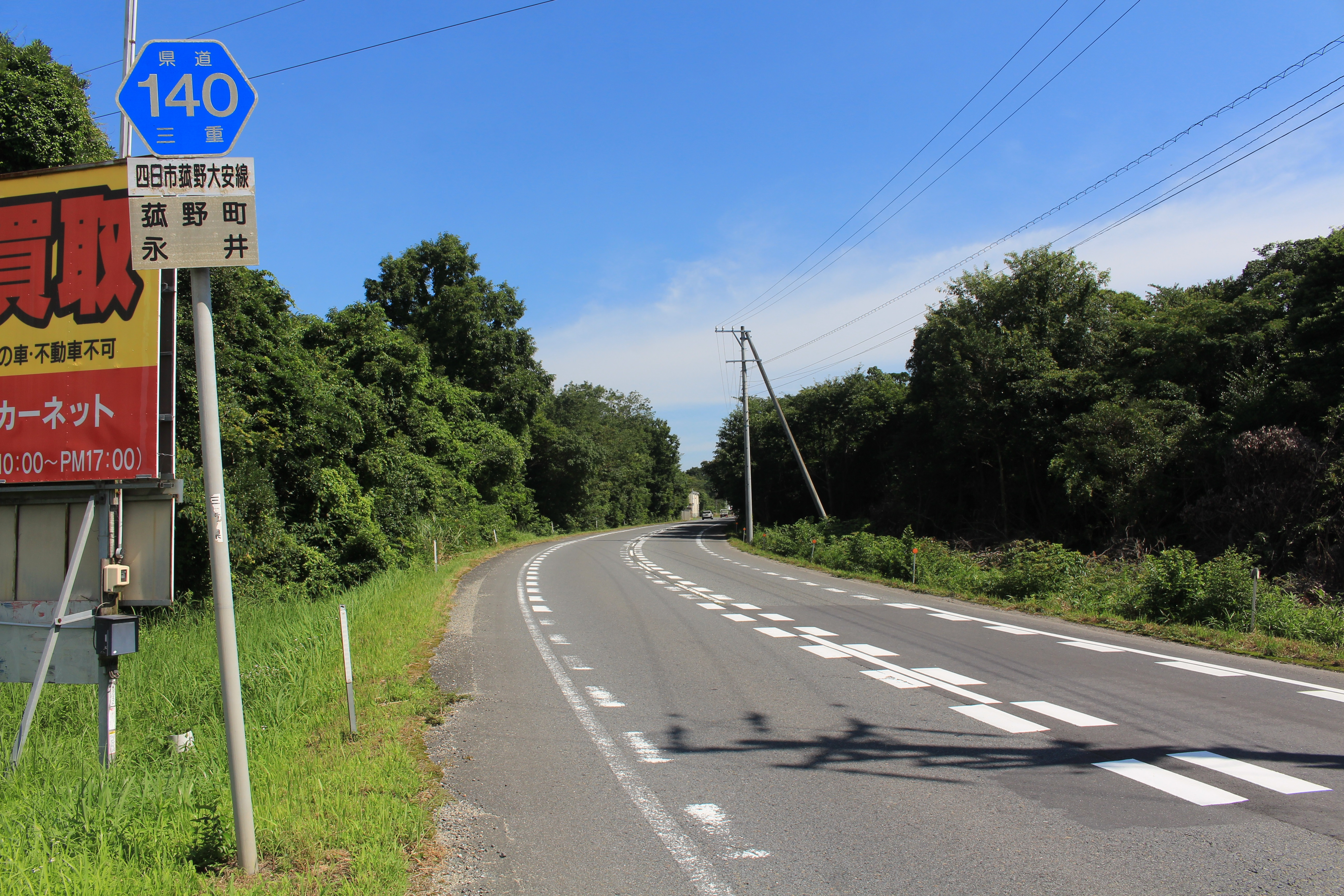 Mie Prefectural Road Route 140 in Nagai, Komono, Mie Prefecture, Japan.